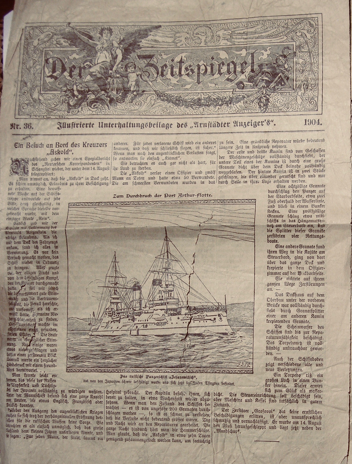 Frontpage of the German newspaper supplement "Der Zeitspiegel", No. 36, 1904 with a report on the Russo-Japanese War and an illustration of the Russian cruiser Askold battleship Tsesarevich, damaged in the Battle of Port Arthur. IMAGE captions: Above: The breakthrough of the Port Arthur fleet. Below: The Russian battleship Tsesarevich